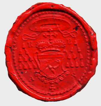 Antonín Petr Příchovský- seal of Prague Archbishop 1764-1793